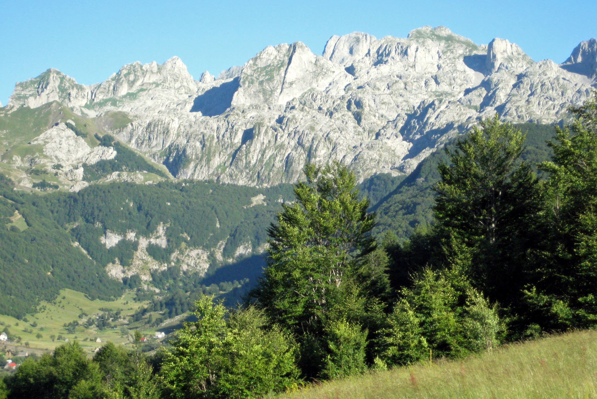 The Bjeshkët e Namuna massive in the Prokletije as seen from North (close to Lepushë, Qafë e Bordolecit)